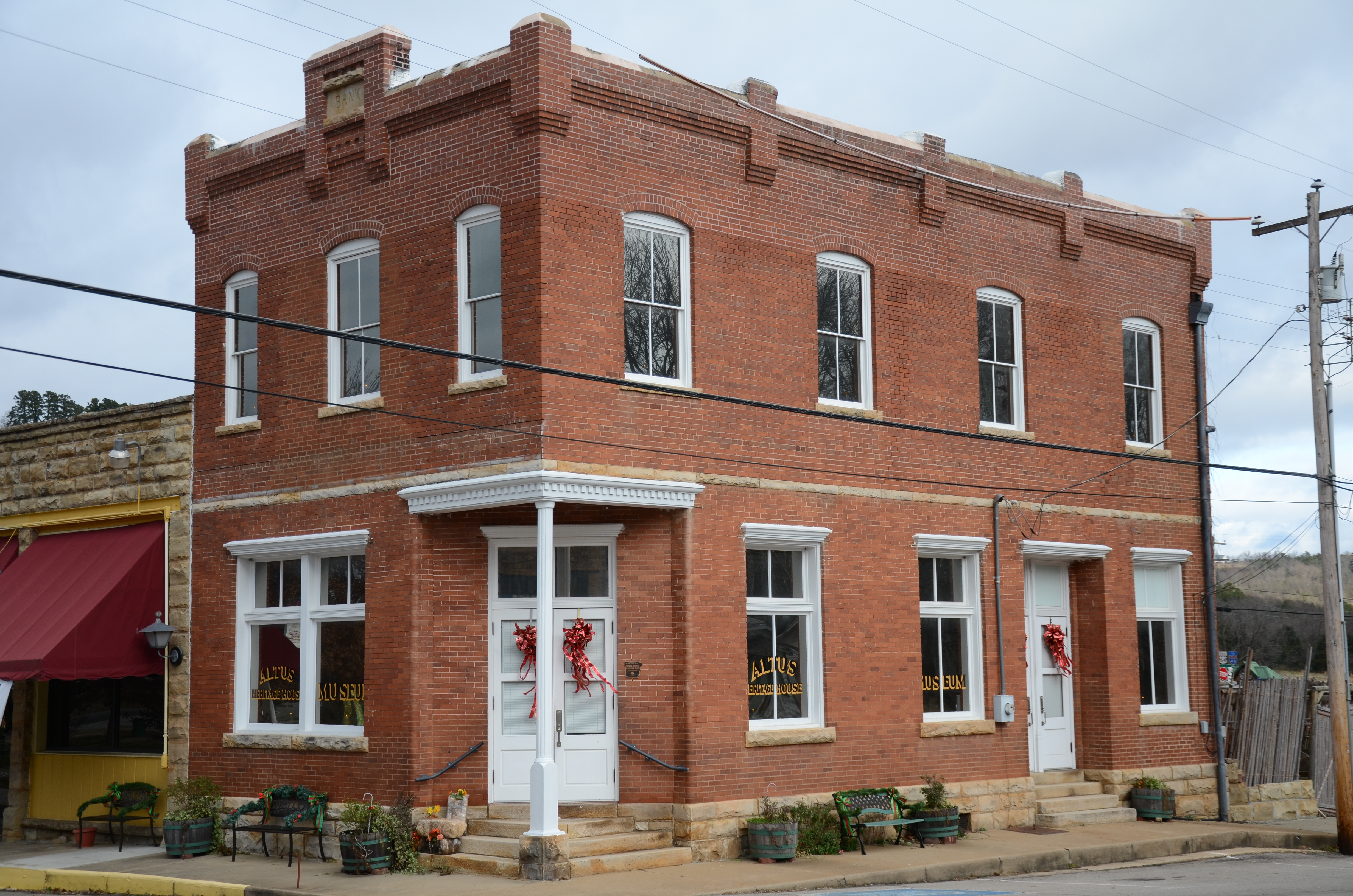 German-American Bank, Junction of Franklin and Main Sts. Altus